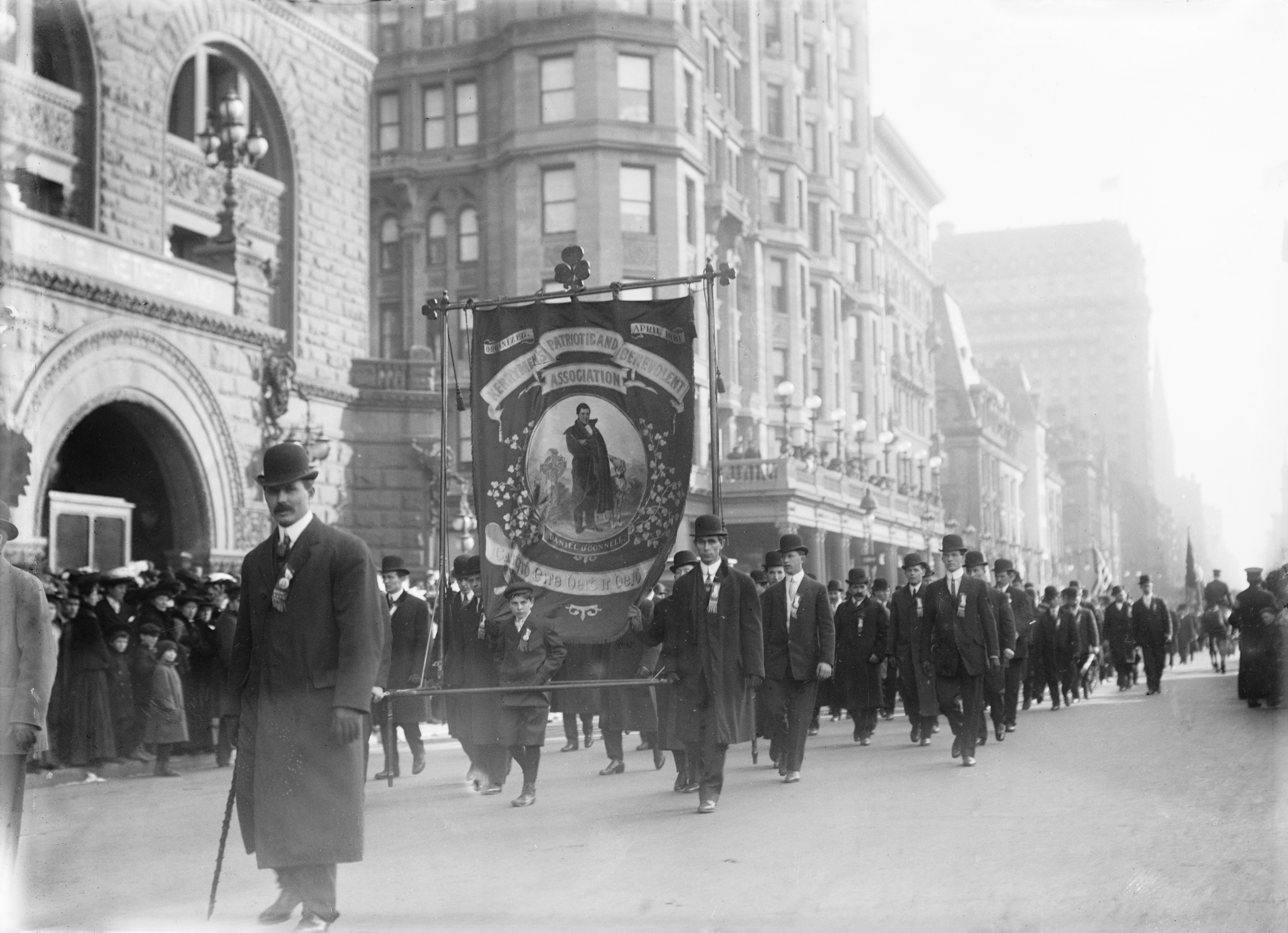 St. Patrick Parade, Fifth Ave., New York 1907. Forms part of the George Grantham Bain Collection (Library of Congress).